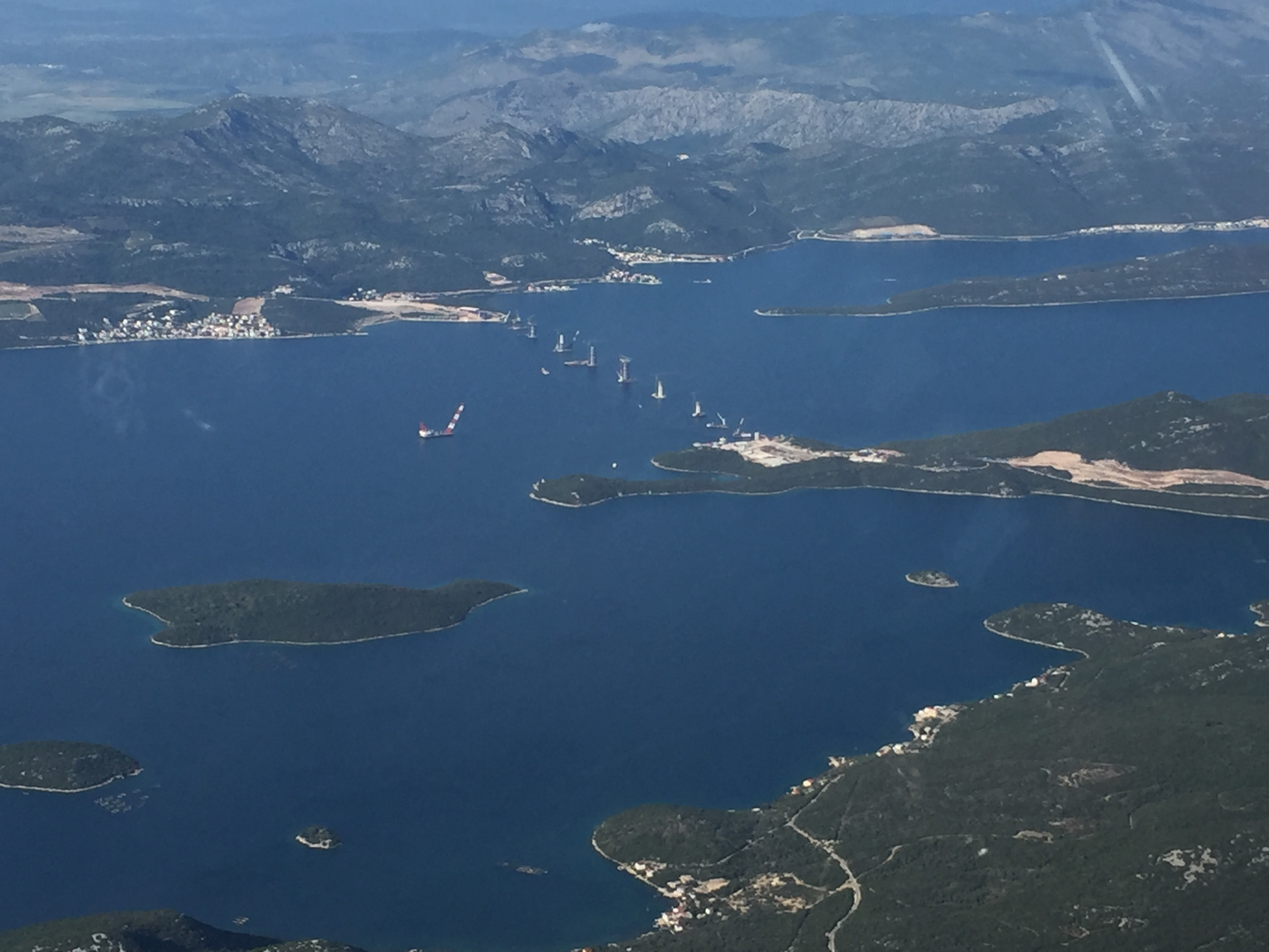 Pelješac Bridge construction site on June 18th, 2020.